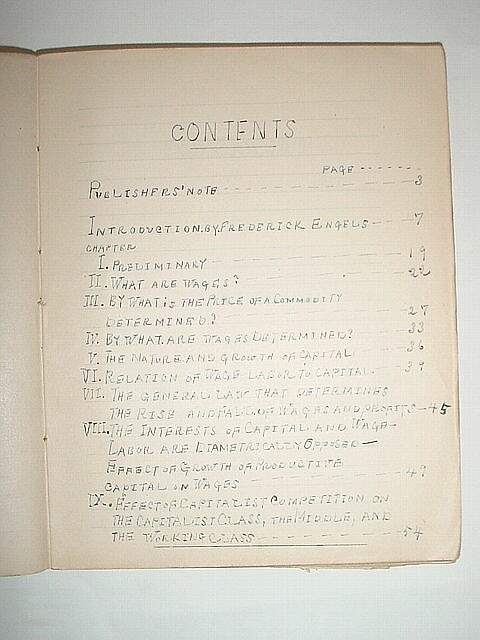 Wage-Labor and Capital by Karl Marx, from Toshihiko Sakai